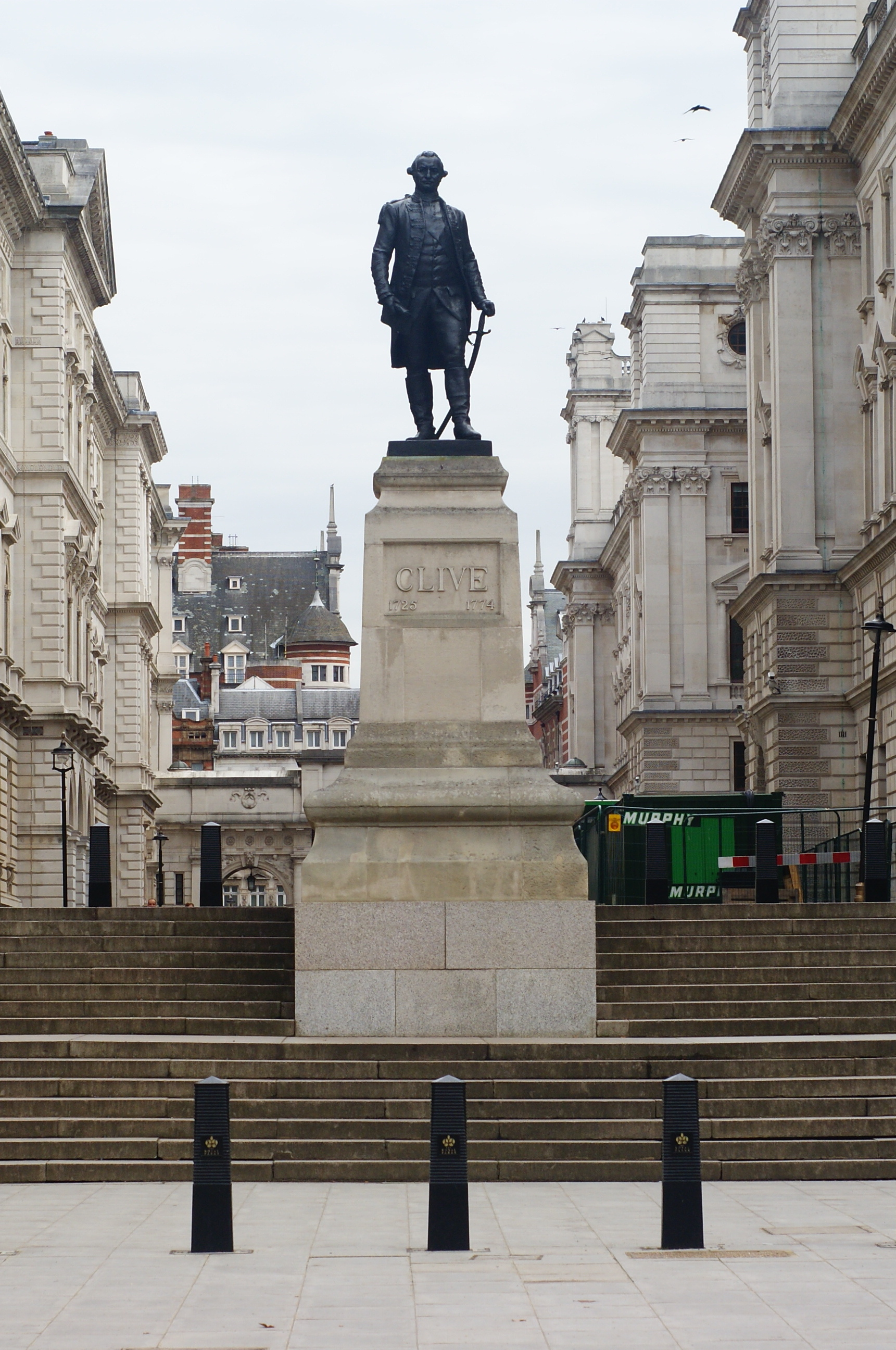 Located at the end of King Charles Street, overlooking St.James's Park. Major-General Robert Clive, 1st Baron Clive, KB (29 September 1725 – 22 November 1774), also known as Clive of India.